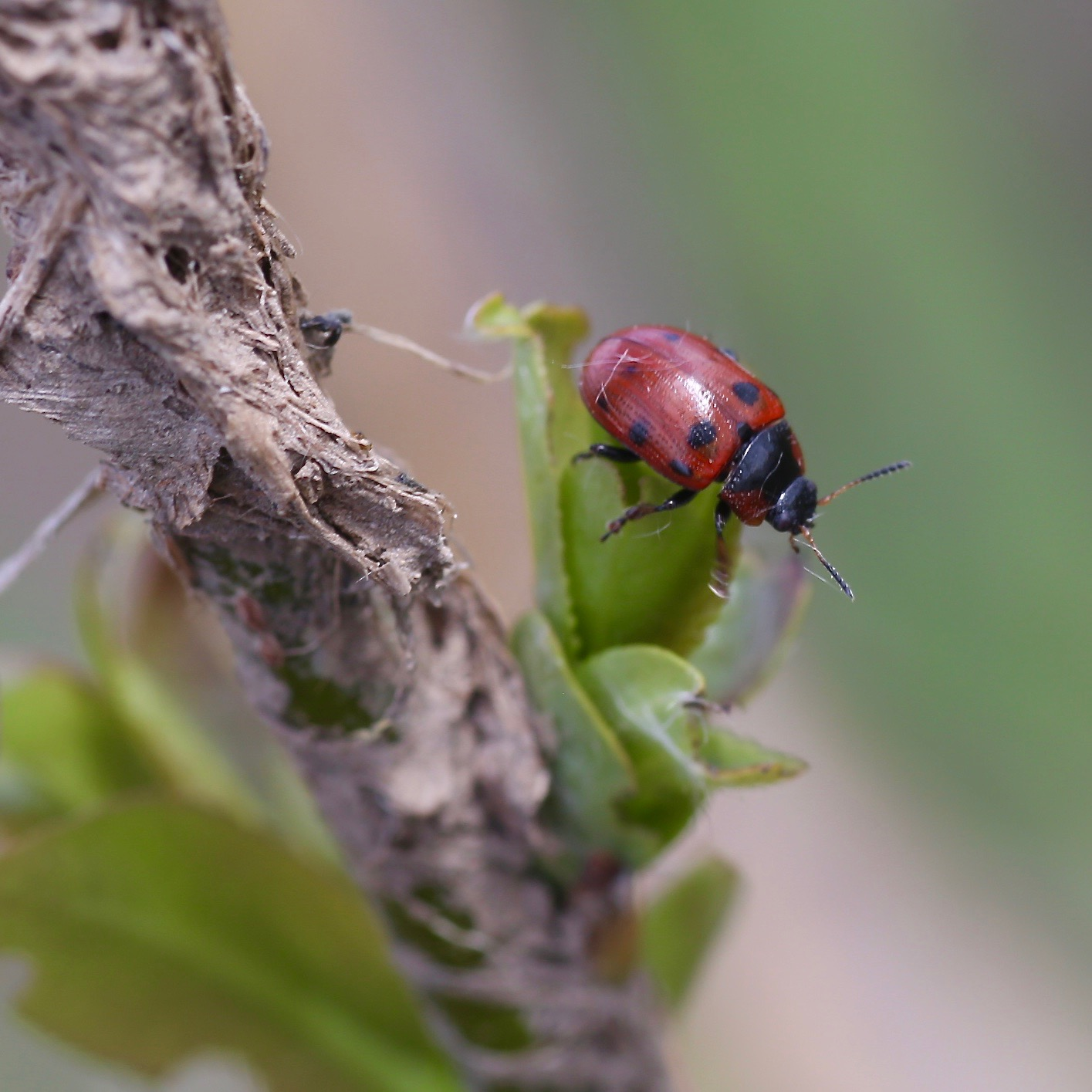 Gonioctena linnaeana (Schrank 1781) on Salix sp. Moscow area, Setpukhov region, Nikiforovo village